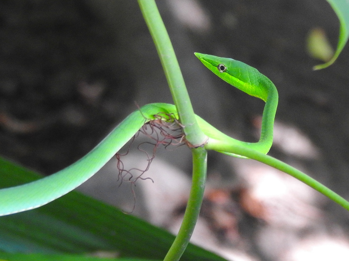 Green vine snake (Oxybelis fulgidus), Tortuguero National Park, Costa Rica 2016.